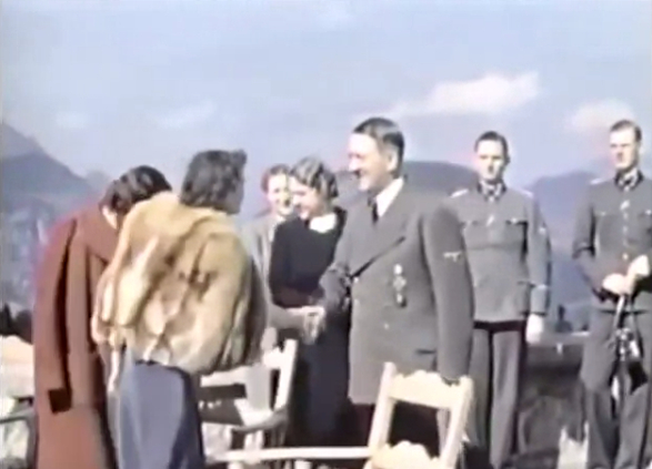 Cut from: Eva Braun's home movie Eva Braun & family vacation; Hitler at Berghof. She captures in the private life of the Nazi high command. Einblick in das private Leben von Eva Braun und Adolf Hitler . The Hitler home movies